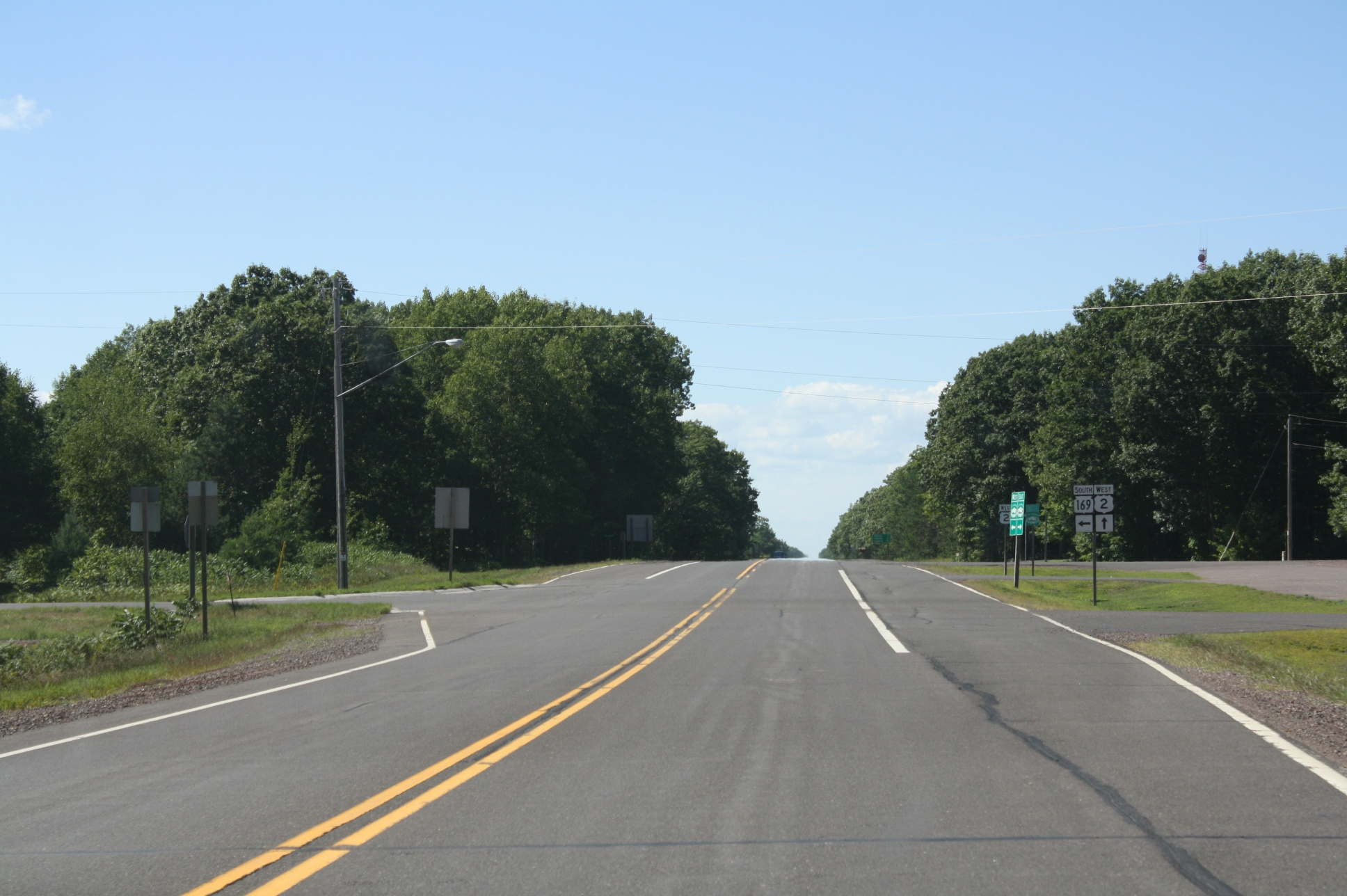 Looking west at the northern terminus for Wisconsin Highway 169.